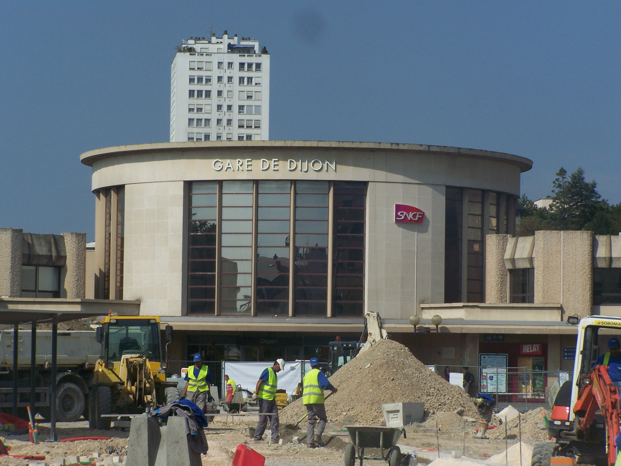 Front of the train station of Dijon-Ville, in Dijon, Côte-d'Or, France.